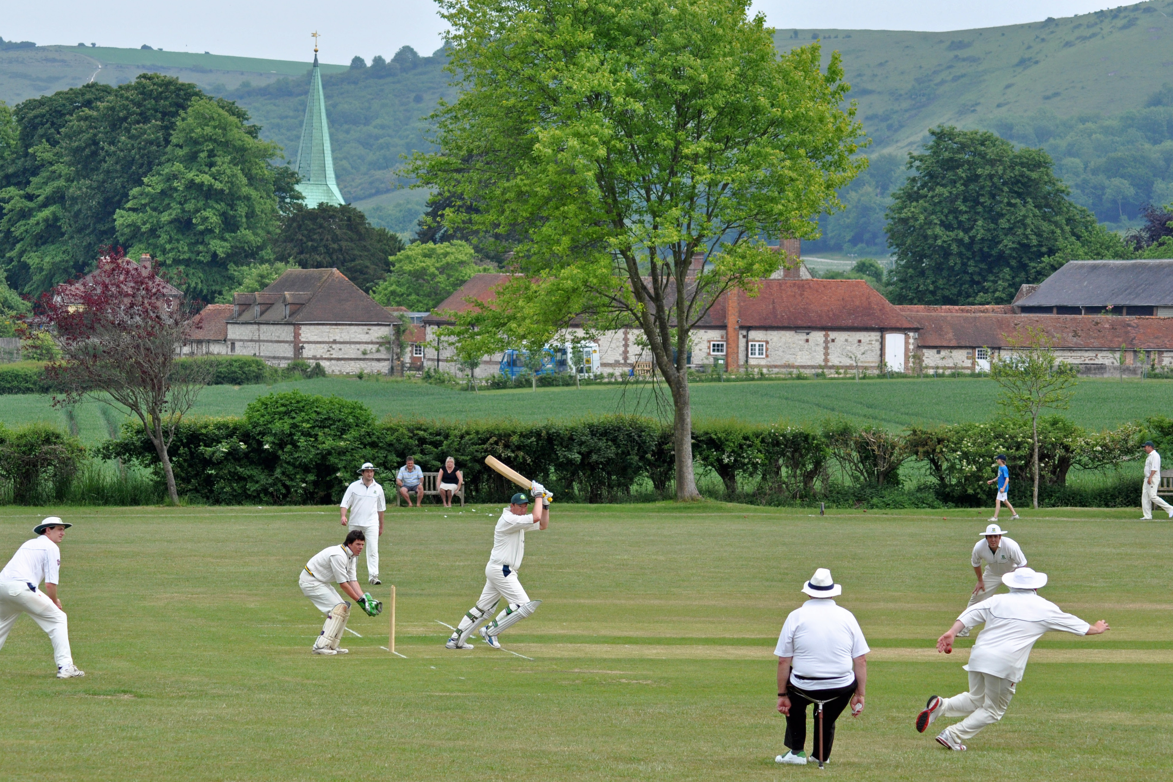 A game between Harting CC and Elstead CC at South Harting in 2010